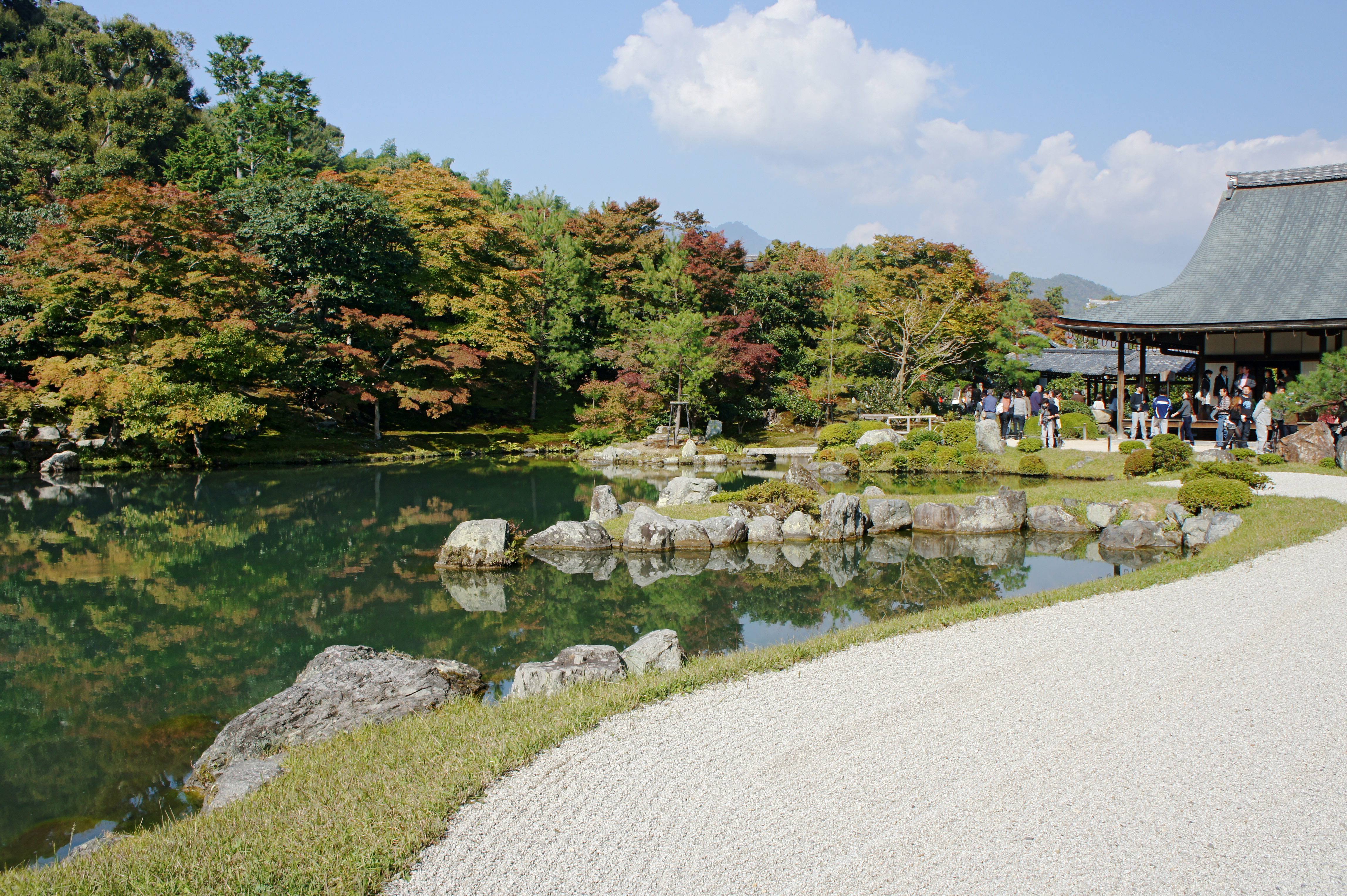 Tenryū-ji in Ukyō-ku, Kyoto, Kyoto prefecture, Japan